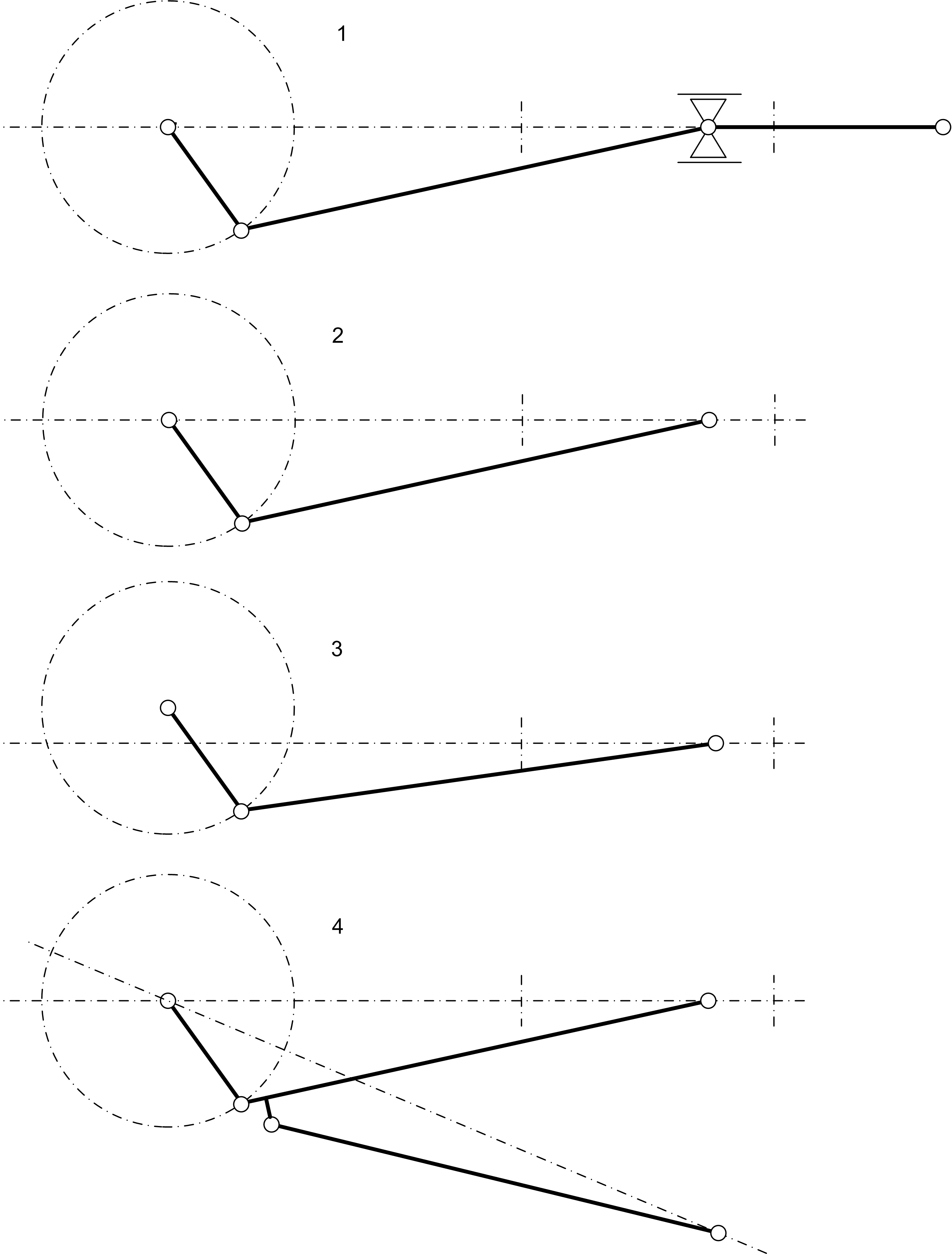 Variants of crank mechanism. 1 - full crank mechanism with crosshead bearing. 2 - short crank mechanism. 3 - eccentric crank mechanism. 4 - crank mechanism with slave connecting rod.